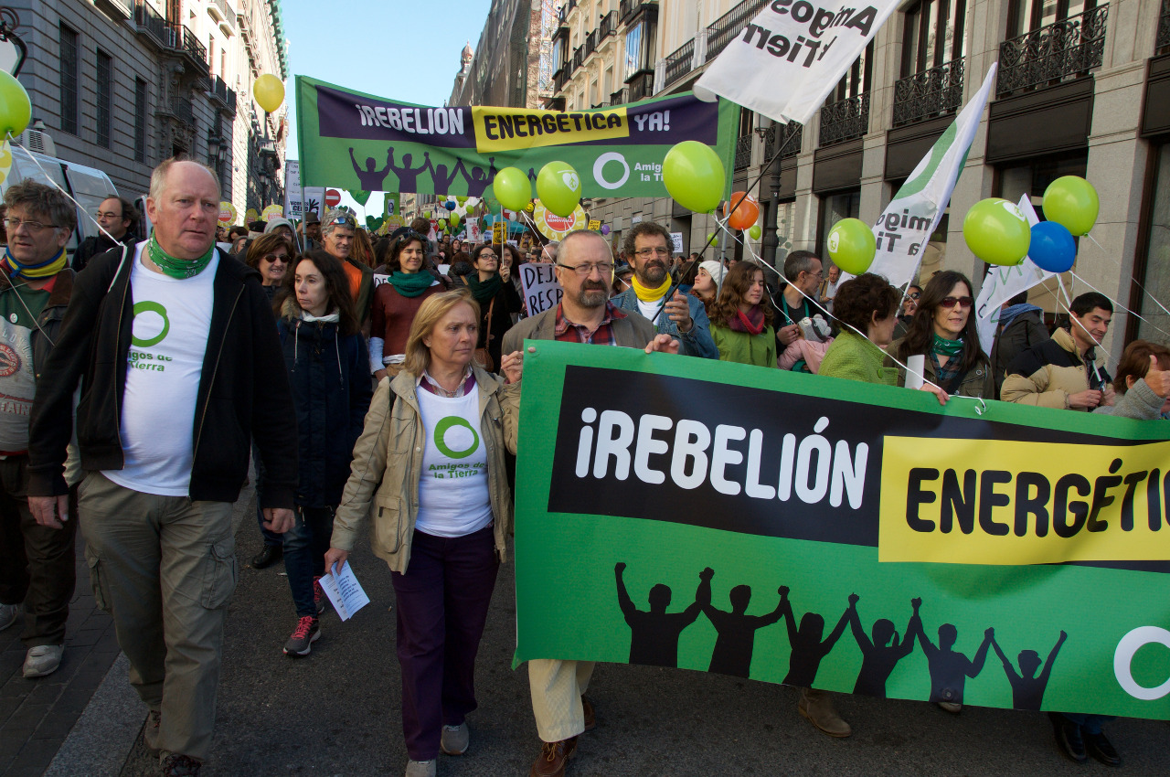 ClimateMarch, Madrid, November 29th.